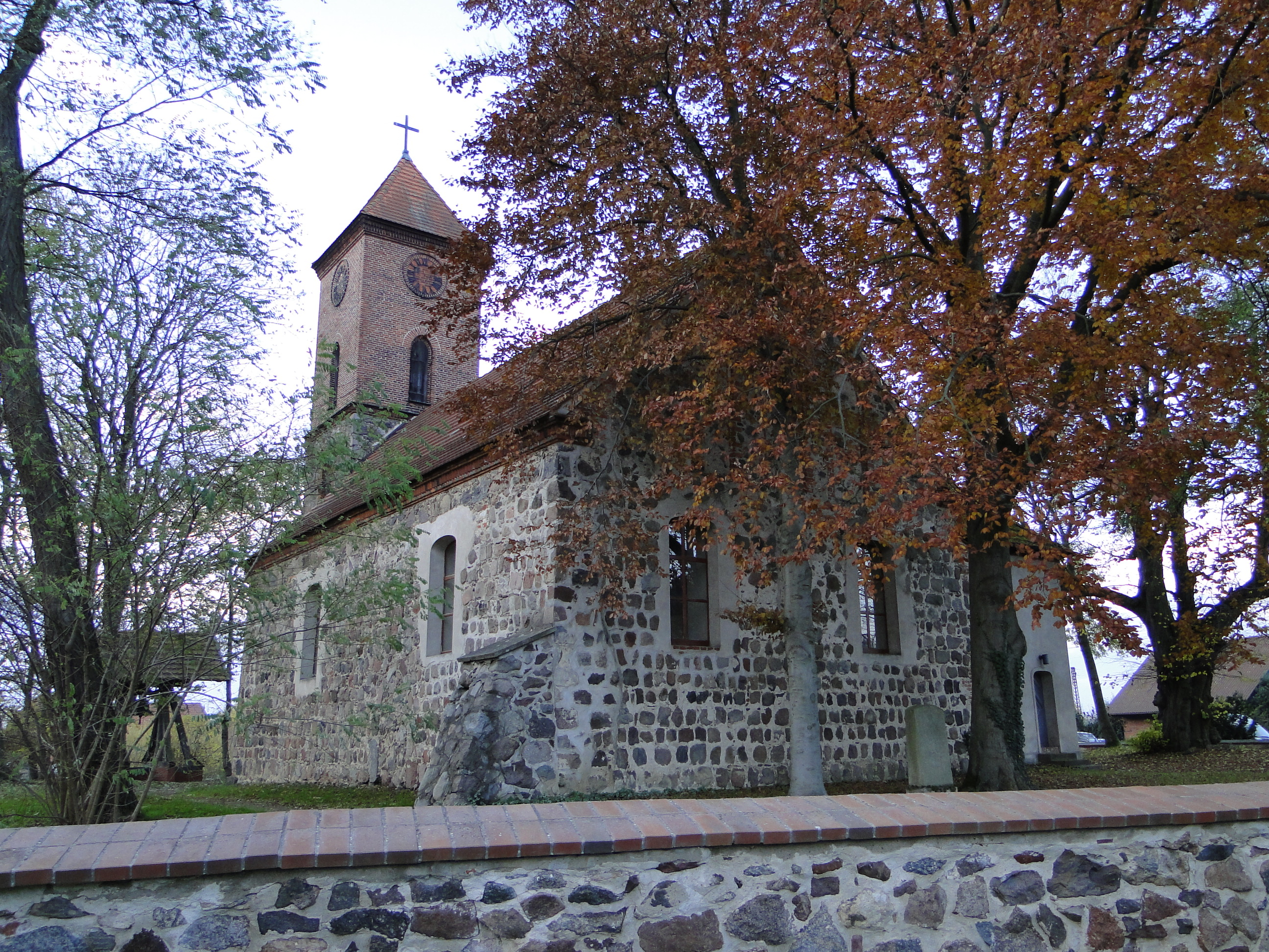 Church in Quadenschönfeld, district Mecklenburg-Strelitz, Mecklenburg-Vorpommern, Germany